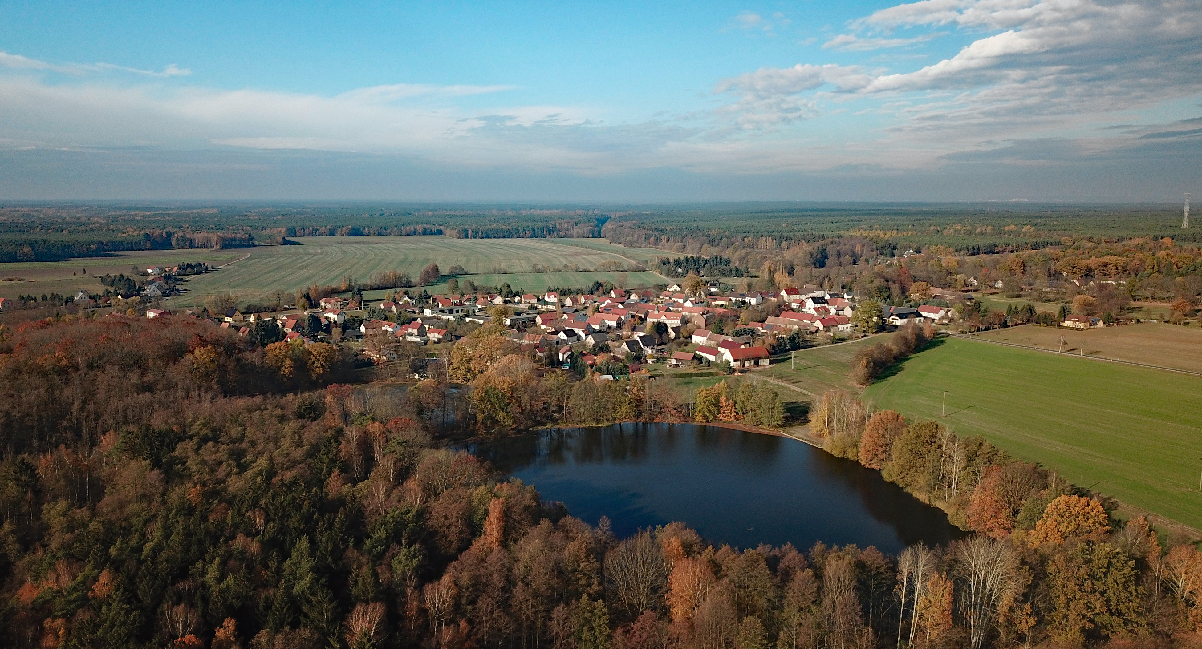 Grüngräbchen (Schwepnitz, Saxony, Germany)